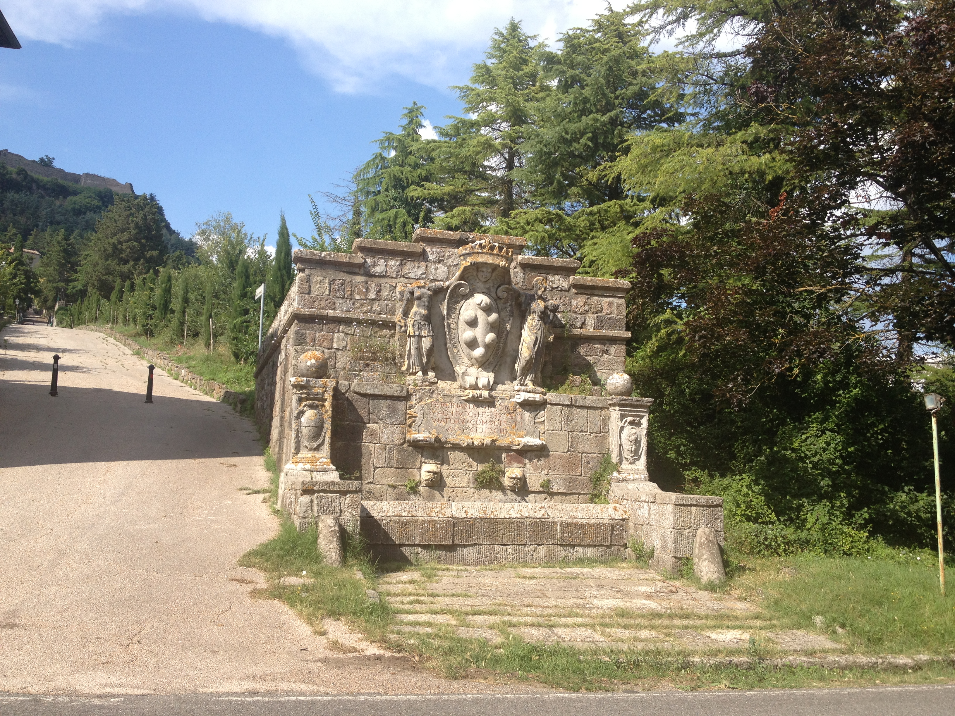 Radicofani Medici's fountain